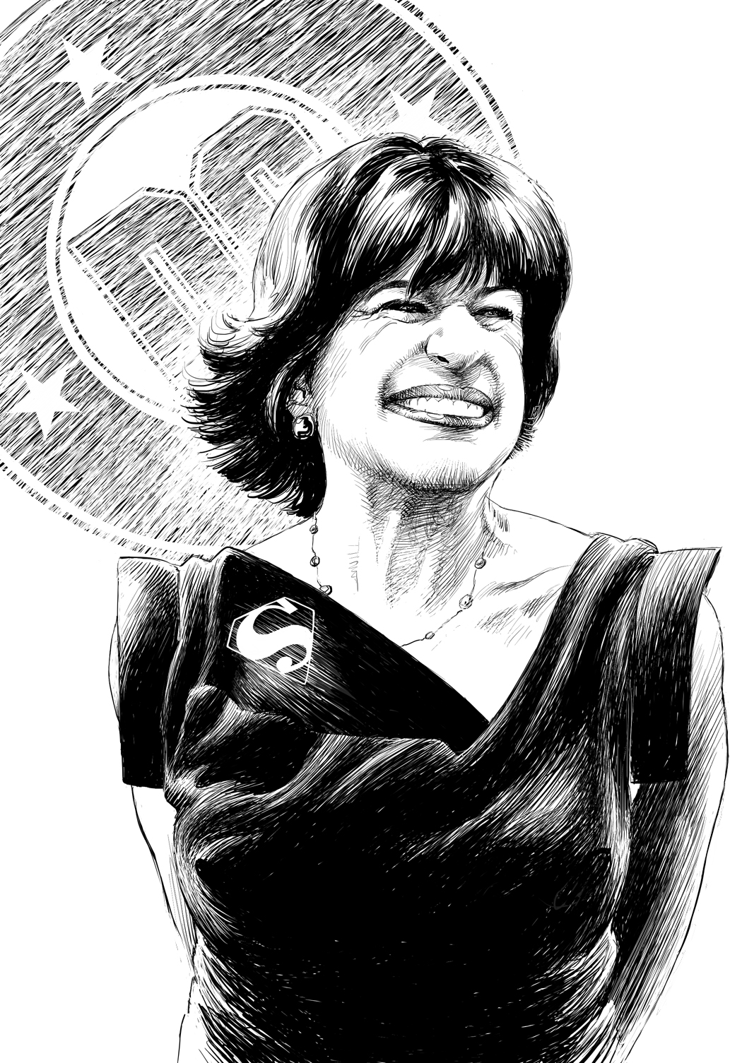 Portrait of former DC Comics publisher and president, Jenette Kahn from Portraits of the Creators Sketchbook.